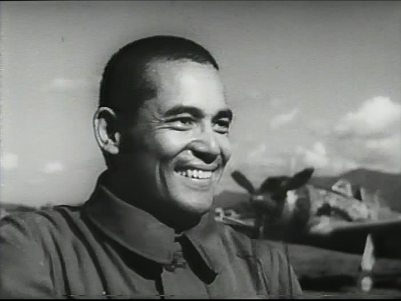 Susumu Fujita from "Kato hayabusa sento-tai (Colonel Kato's Falcon Squadron)".